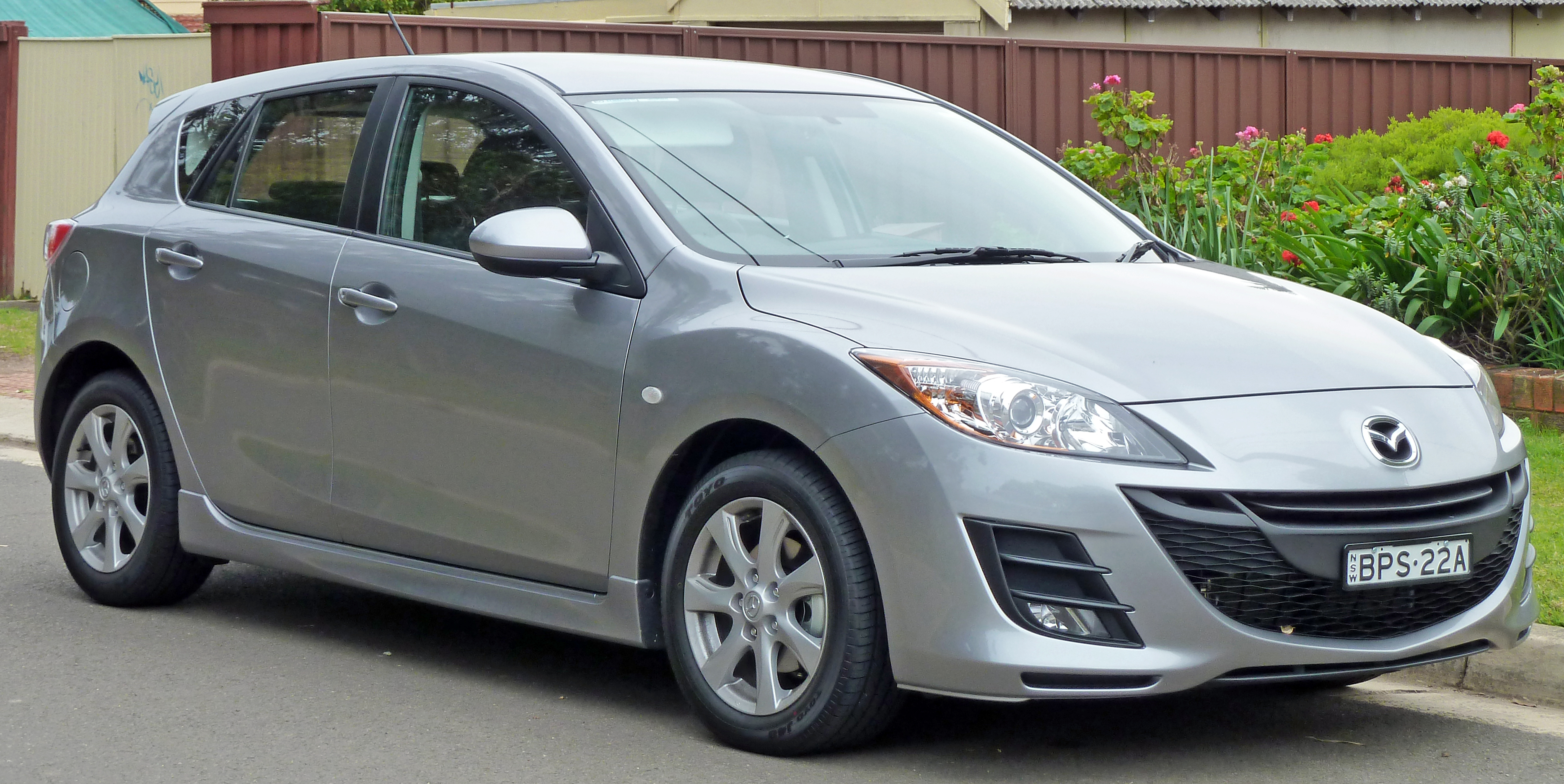 2010 Mazda3 (BL MY10) Maxx Sport hatchback. Photographed in Woolooware, New South Wales, Australia.